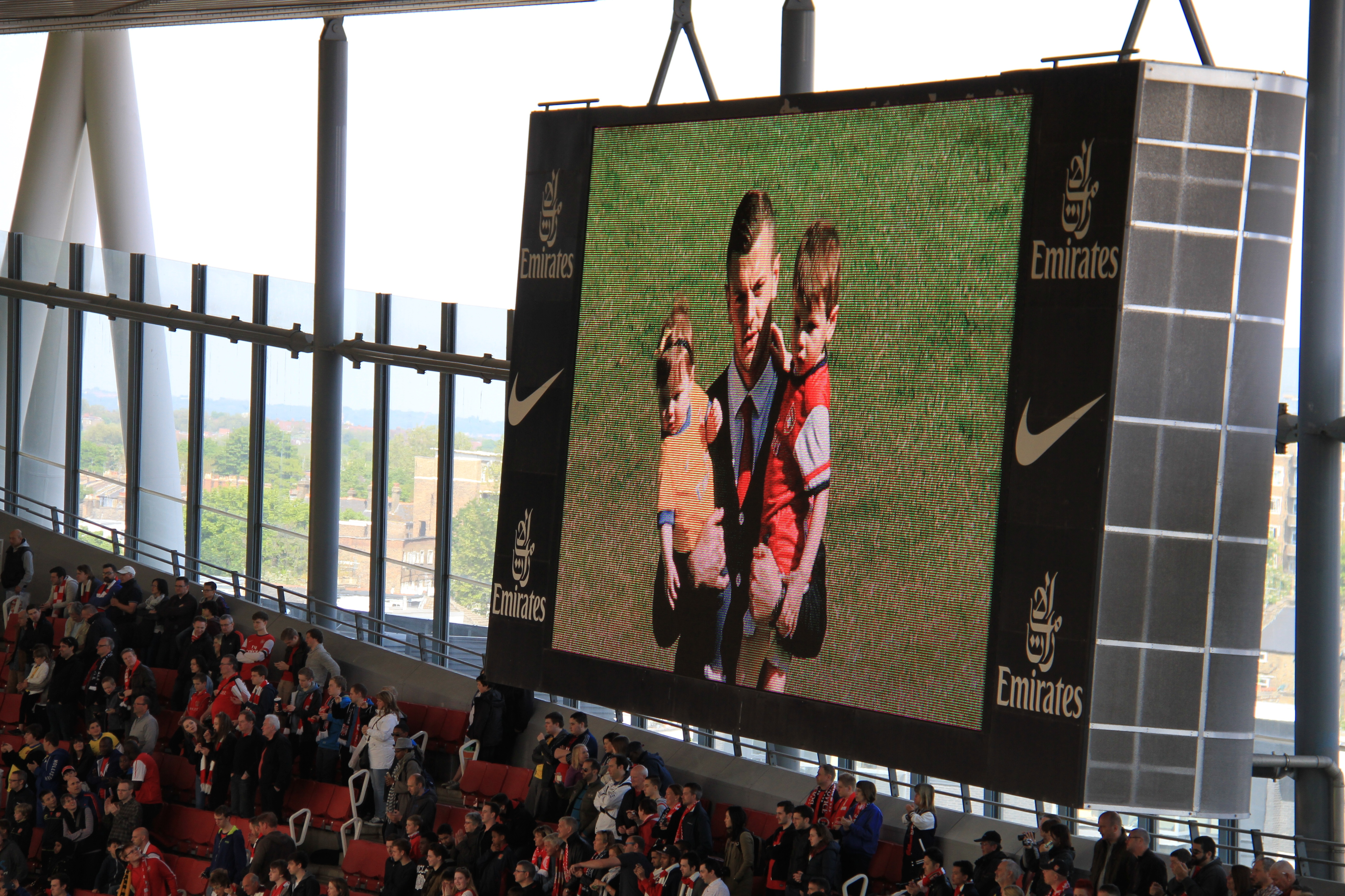 Jack Wilshere and his children, on the big screen at the Emirates Stadium